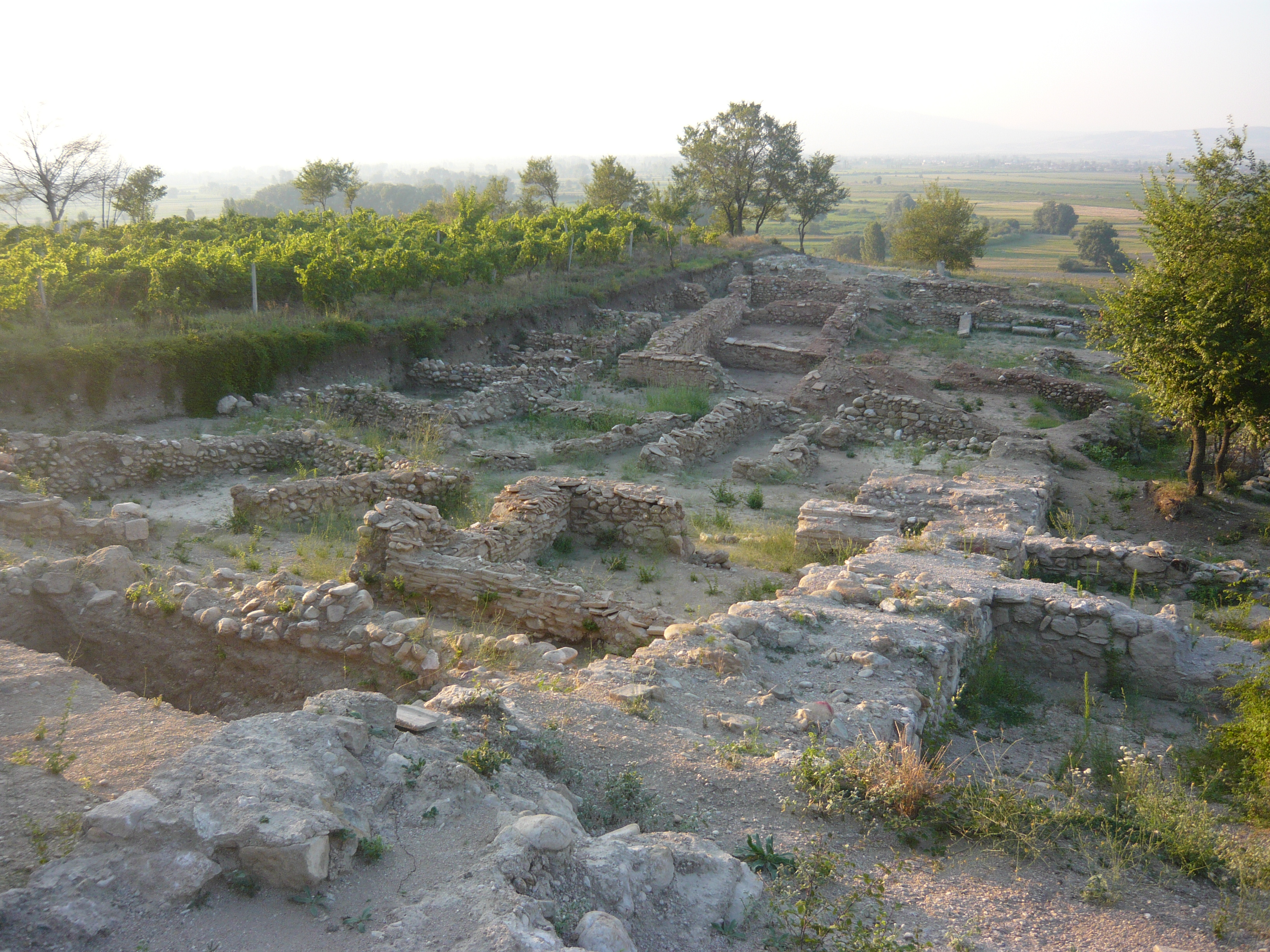 Tauresium, an ancient town and the birthplace of Eastern Roman (Byzantine) Emperor Justinian I, located today in the Republic of Macedonia